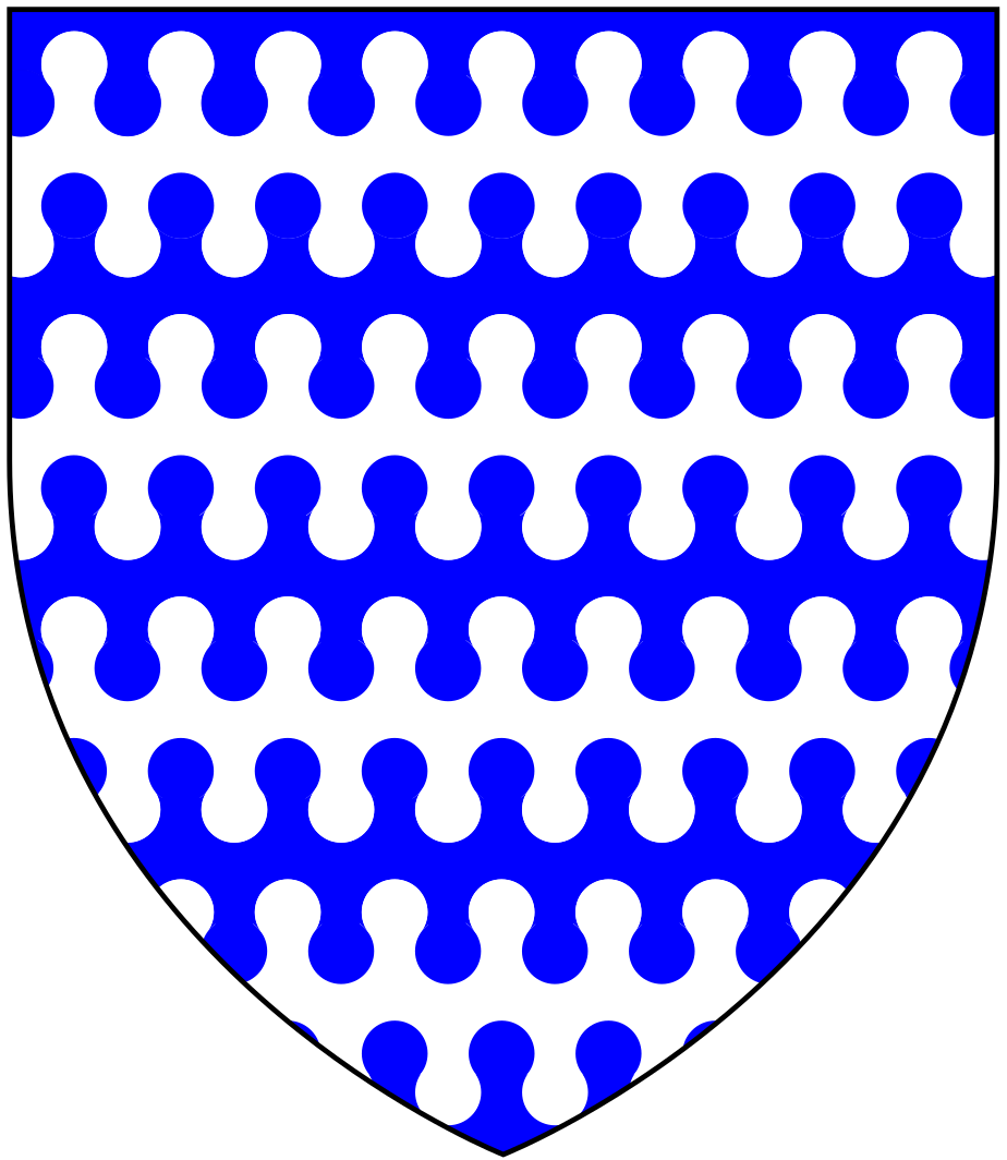 An heraldic shield displaying Barry nebuly of nine azure and argent